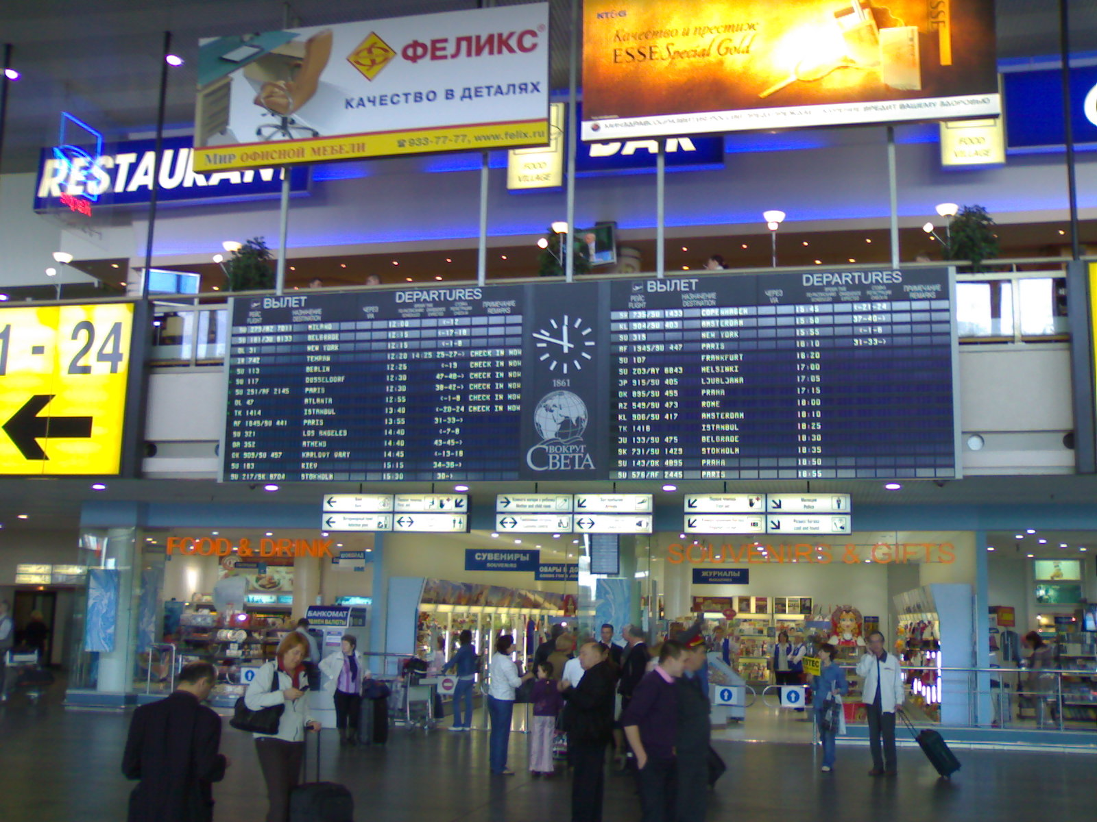 Departures schedule table in the Sheremetyevo-2 (code SVO) airport. Moscow, Russia.